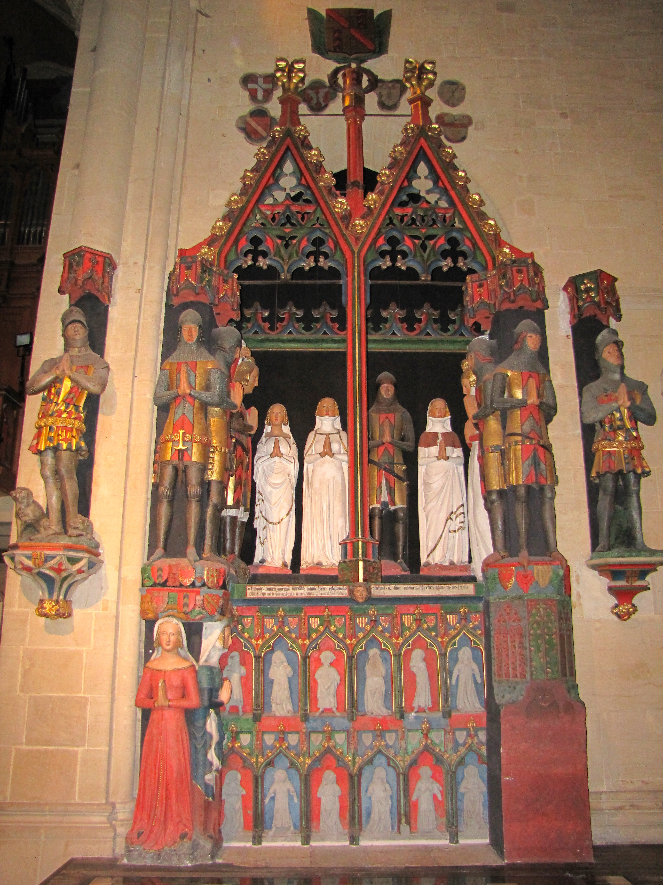 Cenotaph of the counts of Neuchâtel